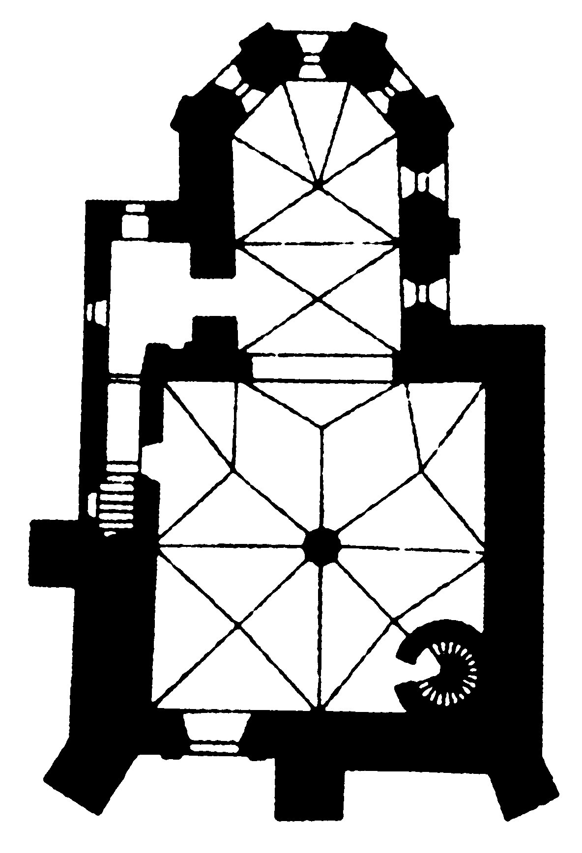 Ground plan of Holy Trinity Chapel in Lublin Poland